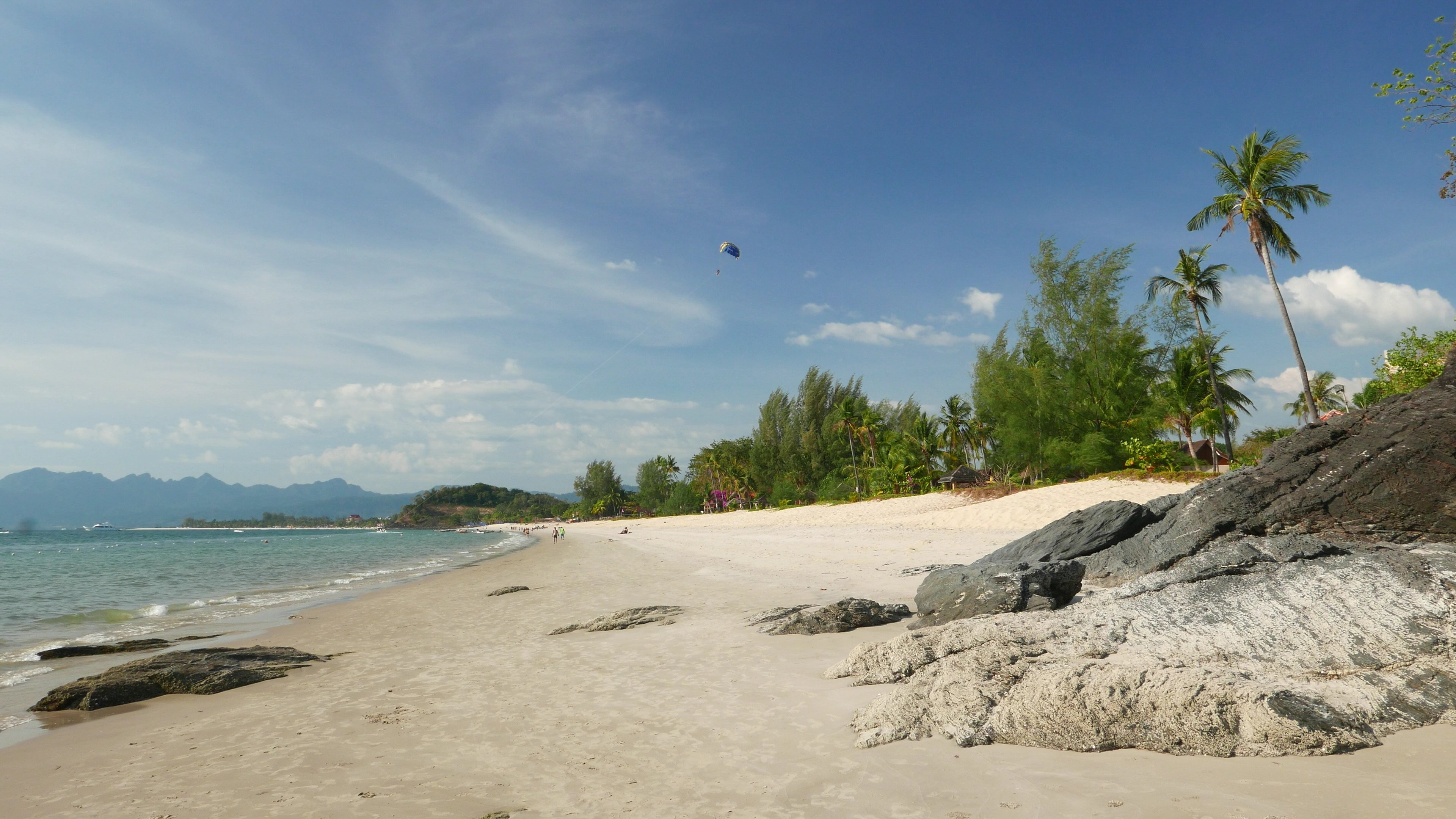 Cenang Beach view, Langkawi island.